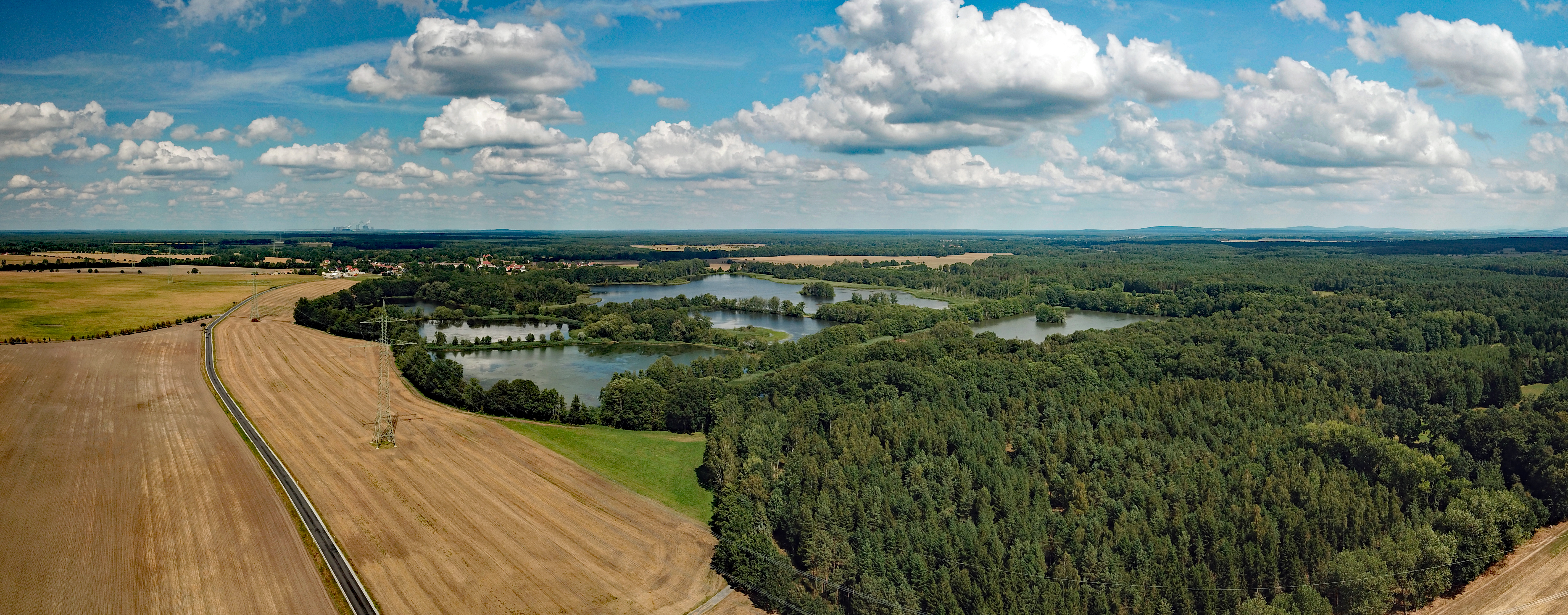 Ponds near Milkel (Radibor, Saxony, Germany) Hornjoserbsce: Powětrowy wobraz Minakałskich hatow.